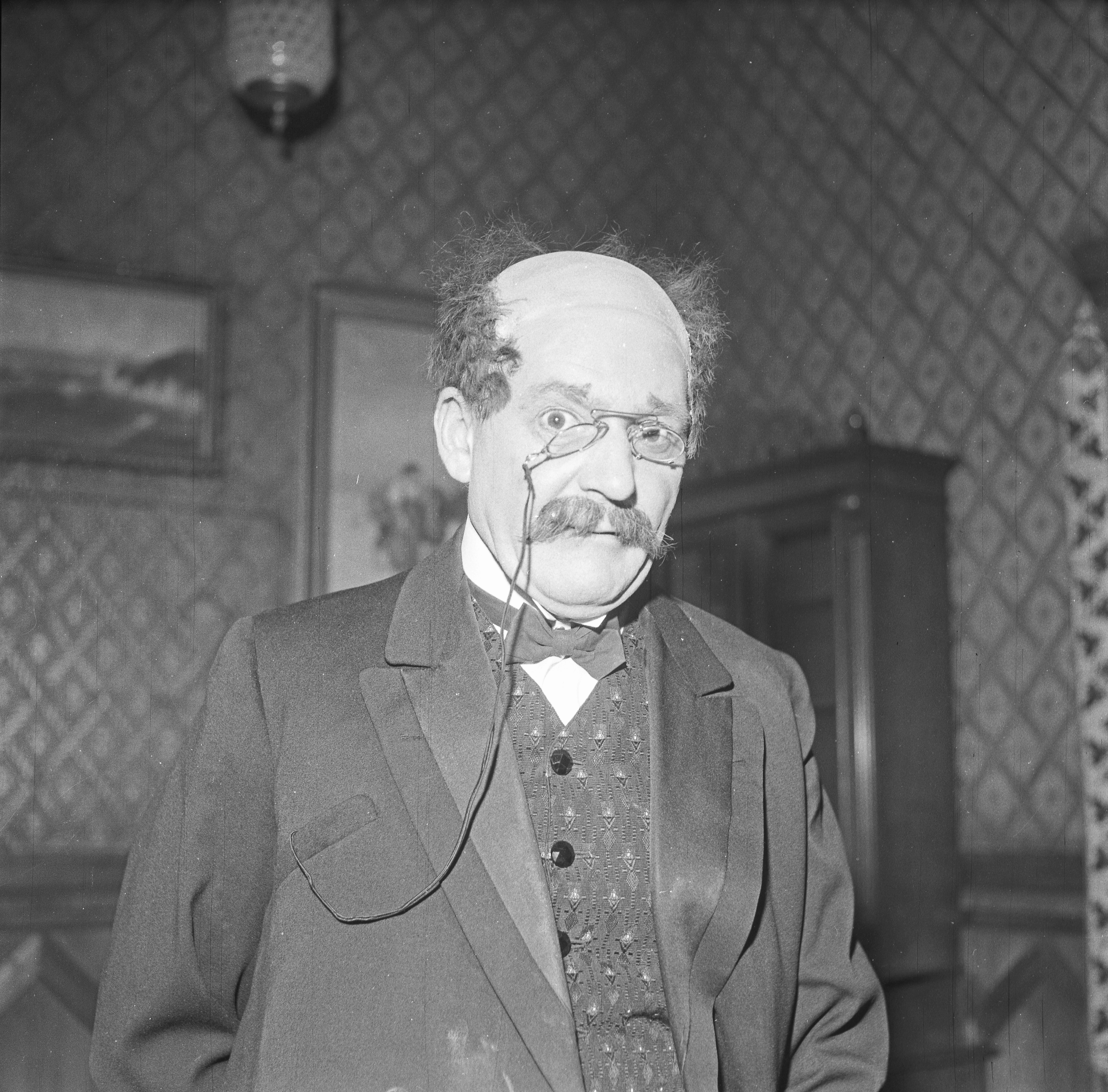 Format: Negativ 120 film Dato / Date: ca. 1969 Fotograf / Photographer: Eirik Sundvor (1902 - 1992) Sted / Place: Bergen, Hordaland Wikipedia: Lothar Lindtner (1917 - 2005) Hvem er hvem? (1973): Per Lothar Lindtner (1917 - 2005) Wikipedia: Geografi og Kærlighed (Bjørnstjerne Bjørnson 1885) Eier / Owner Institution: Trondheim byarkiv, The Municipal Archives of Trondheim Arkivreferanse / Archive reference: Tor.H43.Bxx.F14186b